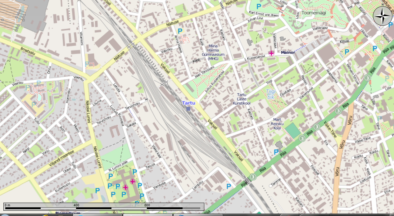 Map of the Tartu Railway Station in Tartu, Estonia. Open Street Map overlay from the Marble program.